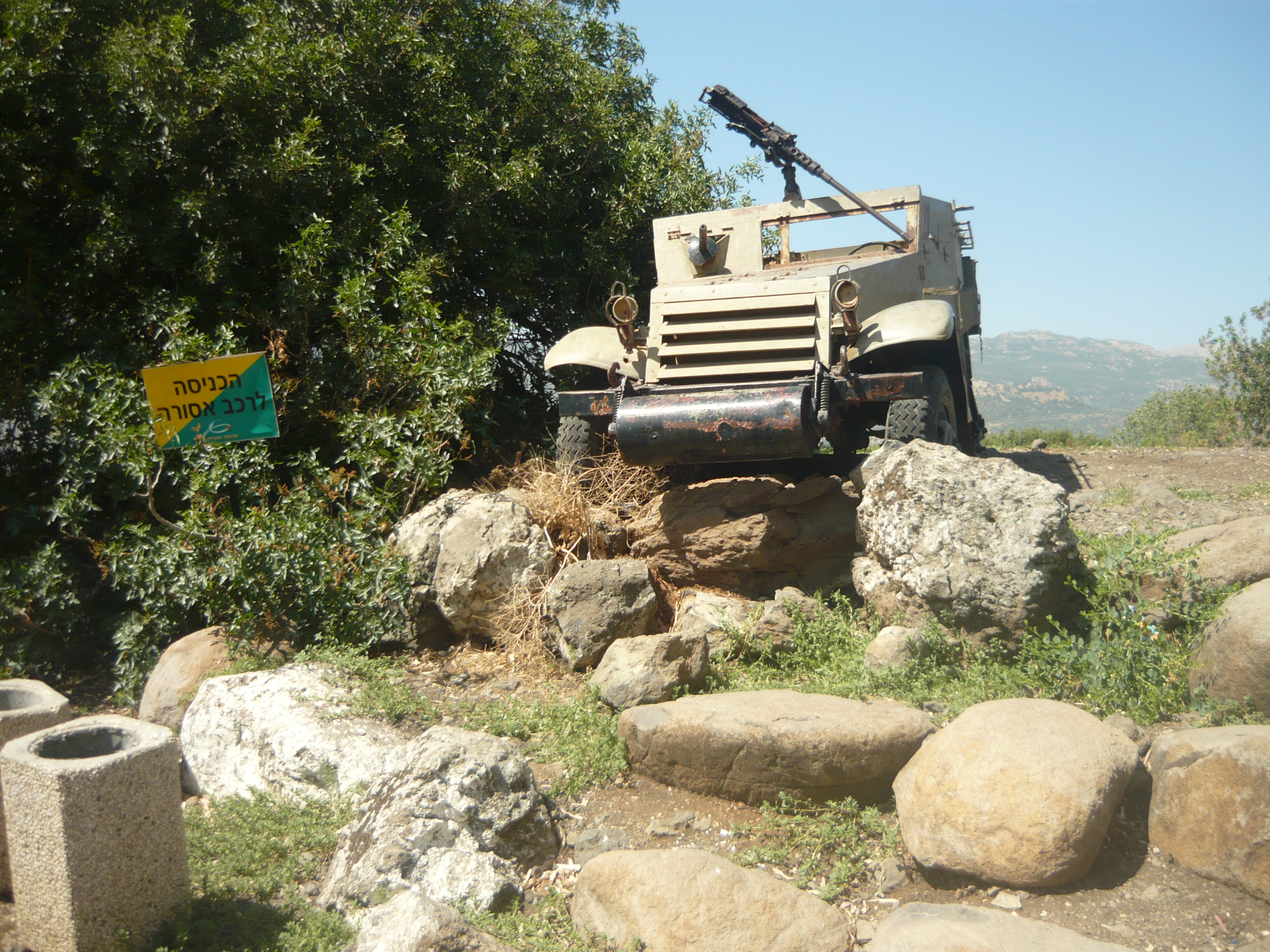 IDF M-3 halftruck and Browning M2 machine gun in the remains of the syrian fort in Tel Faher, site of a battle in the 6 days war זחל"ד צהלי ומקלע 0.5 בשרידי המוצב הסורי בתל פאחר לזכר הקרב שהתחולל שם במלחמת ששת הימים